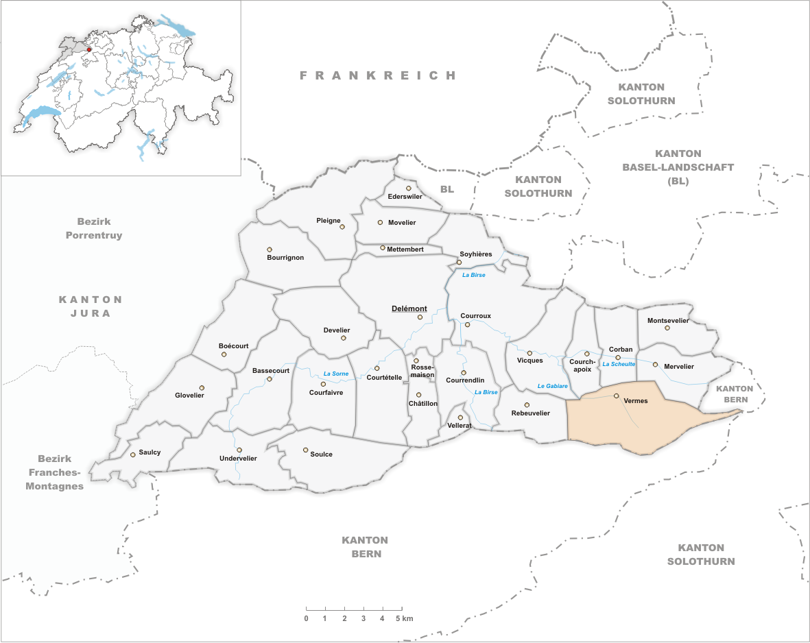 Municipality Vermes